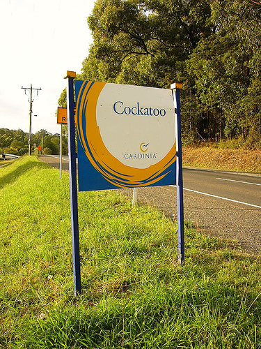 Ben Schueddekopf